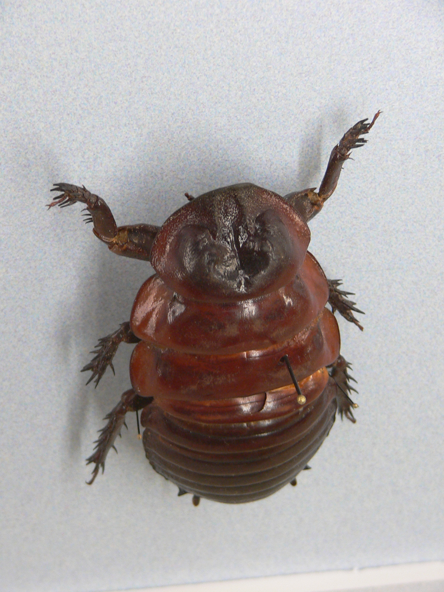 Macropanesthia rhinoceros Pictures taken by myself at the Audubon Insectarium